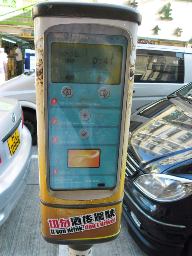 The Parking Meter in Sheung Shui, Hong Kong, which accept to pay by Octopus Card only 中文（香港）: 香港上水的一個咪表，只接受八達通付款